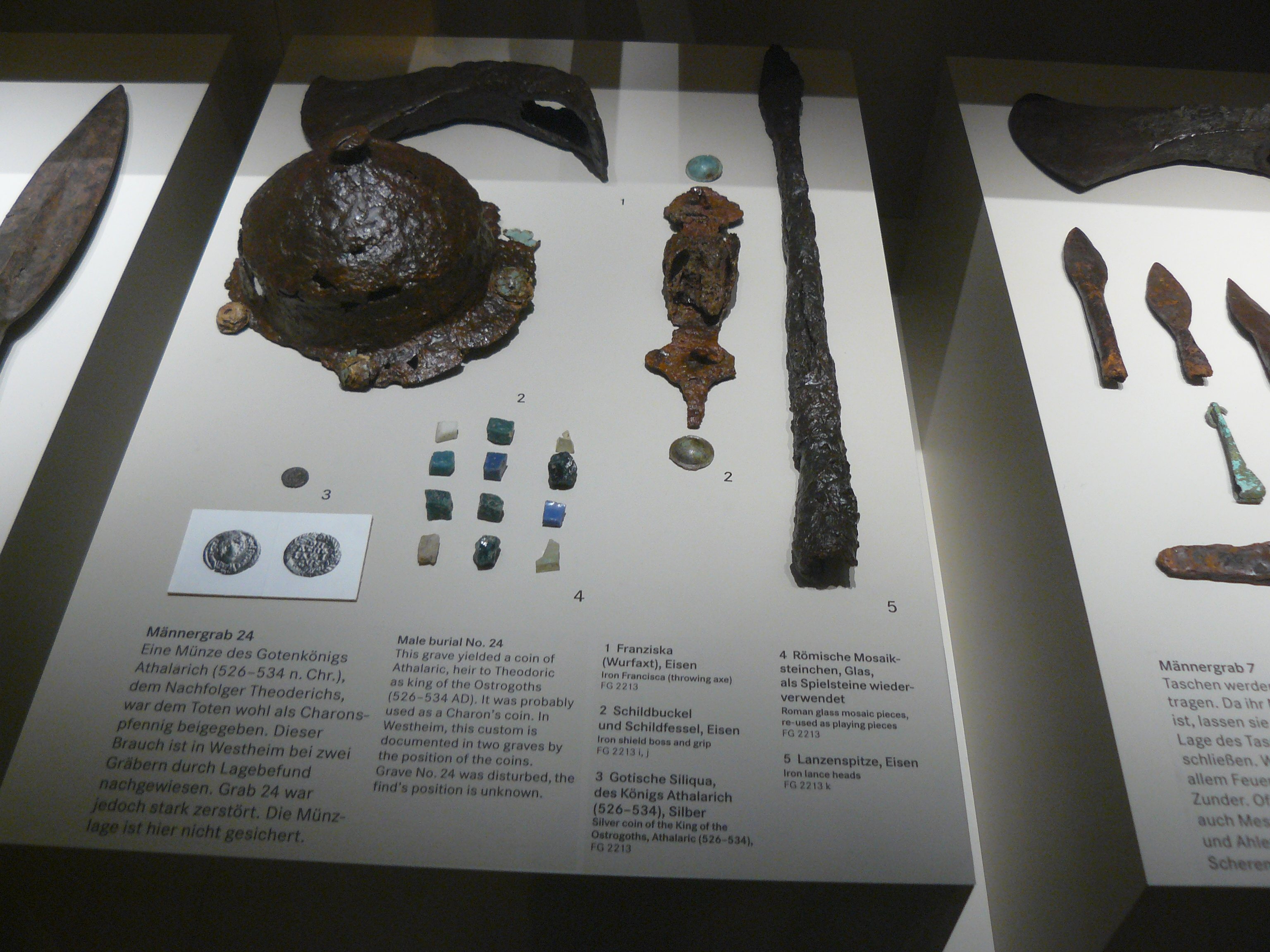 Warrior grave of the 6th century from Westheim in Frankonia, Germany, (Männergrab 24). Containing (1) iron Francisca, (2) iron shield boss and grip, (3) silver coin of king Athalaric (526-534), (4) roman glass mosaic pieces, (5) iron lance heads. Germanisches Nationalmuseum, Nuremberg, Germany.